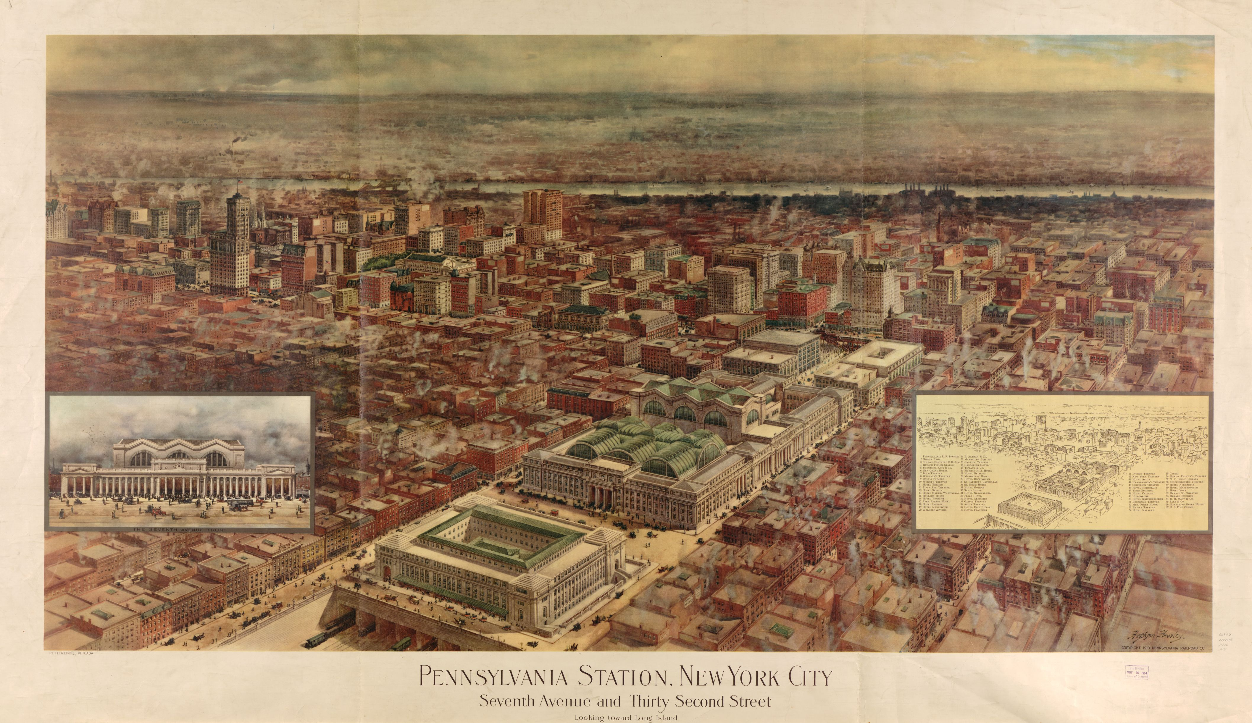 Pennsylvania Railroad Station, New York city : Seventh Avenue and Thirty-Second Street, looking towards Long Island